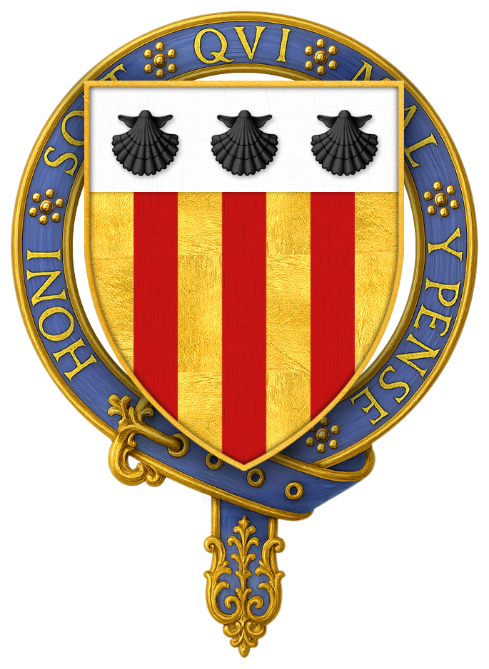 François Surrienne, Sire de Lunée, KG FOSTER, Joseph, Some Feudal Coats of Arms from Heraldic Rolls 1298-1418, London: James Parker & Co., 1902. “Surrien, Sir Francis, K.G. (H. vi.) - bore, or three palets gules, on a chief argent three escallops sable; K. 402 fo. 28.”